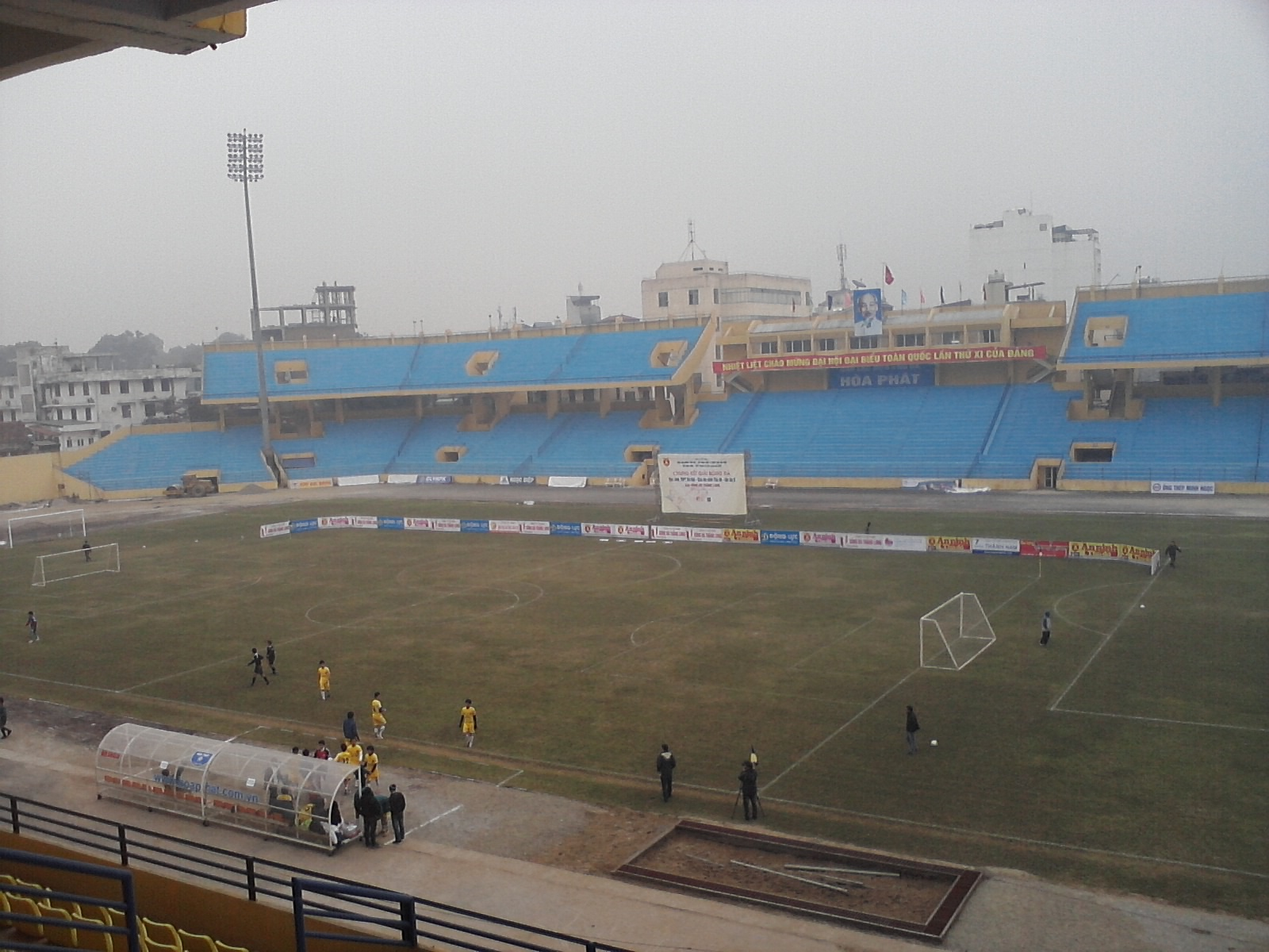 Hang Day Stadium